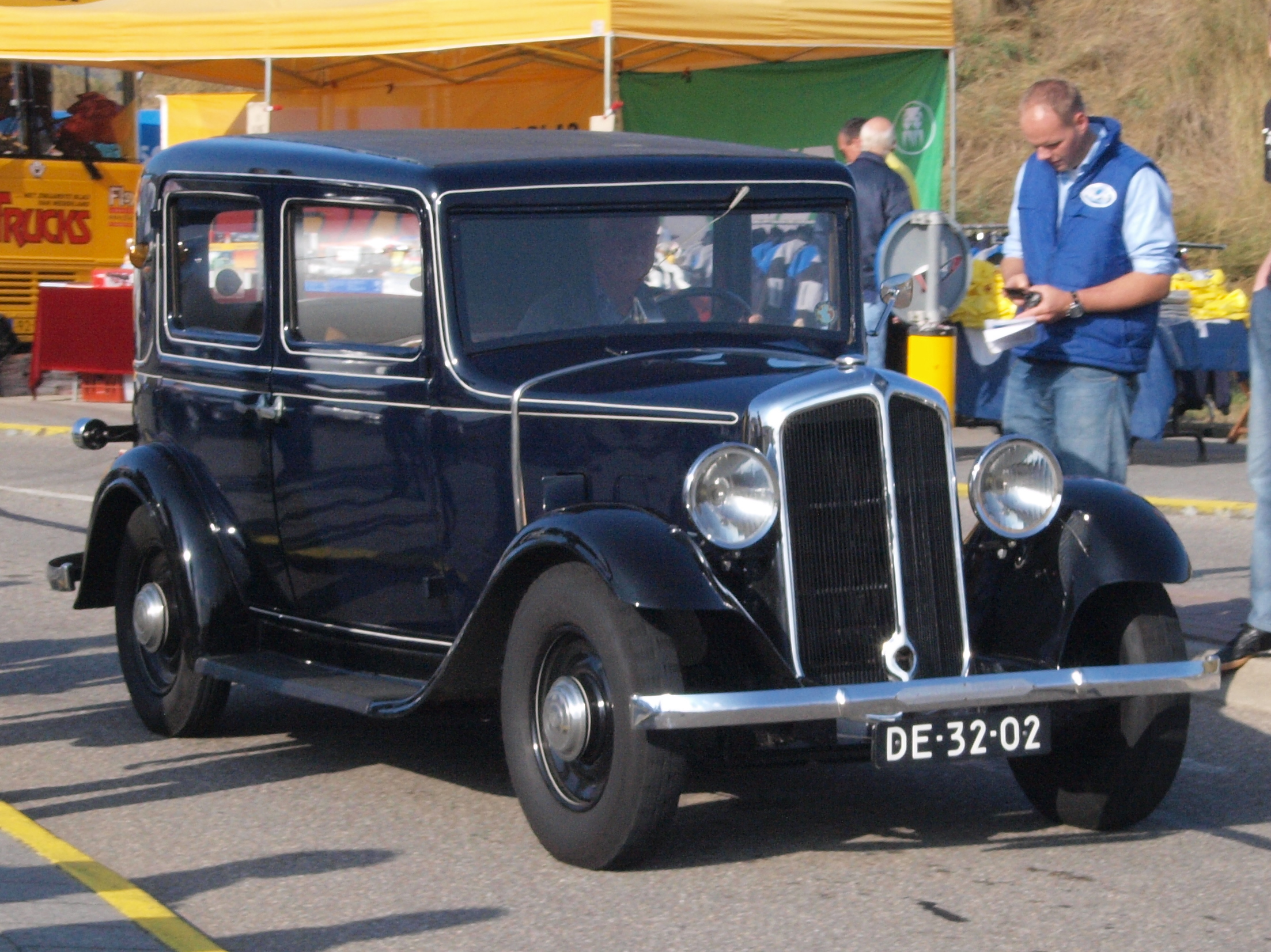 Photographed at the Nationaal Oldtimer Festival Zandvoort 2009, The Netherlands. OLYMPUS DIGITAL CAMERA